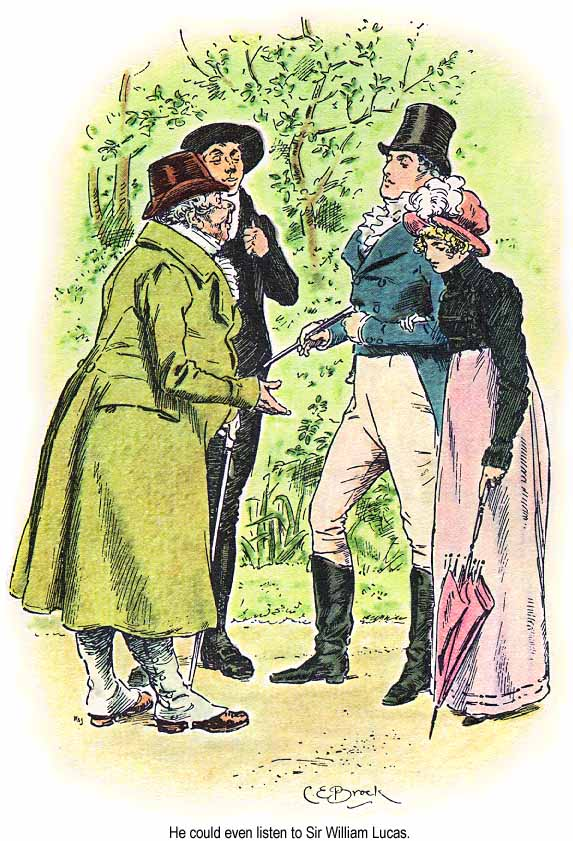 C. E. Brock illustration for the 1895 edition of Jane Austen's novel Pride and Prejudice (Chapter 60)